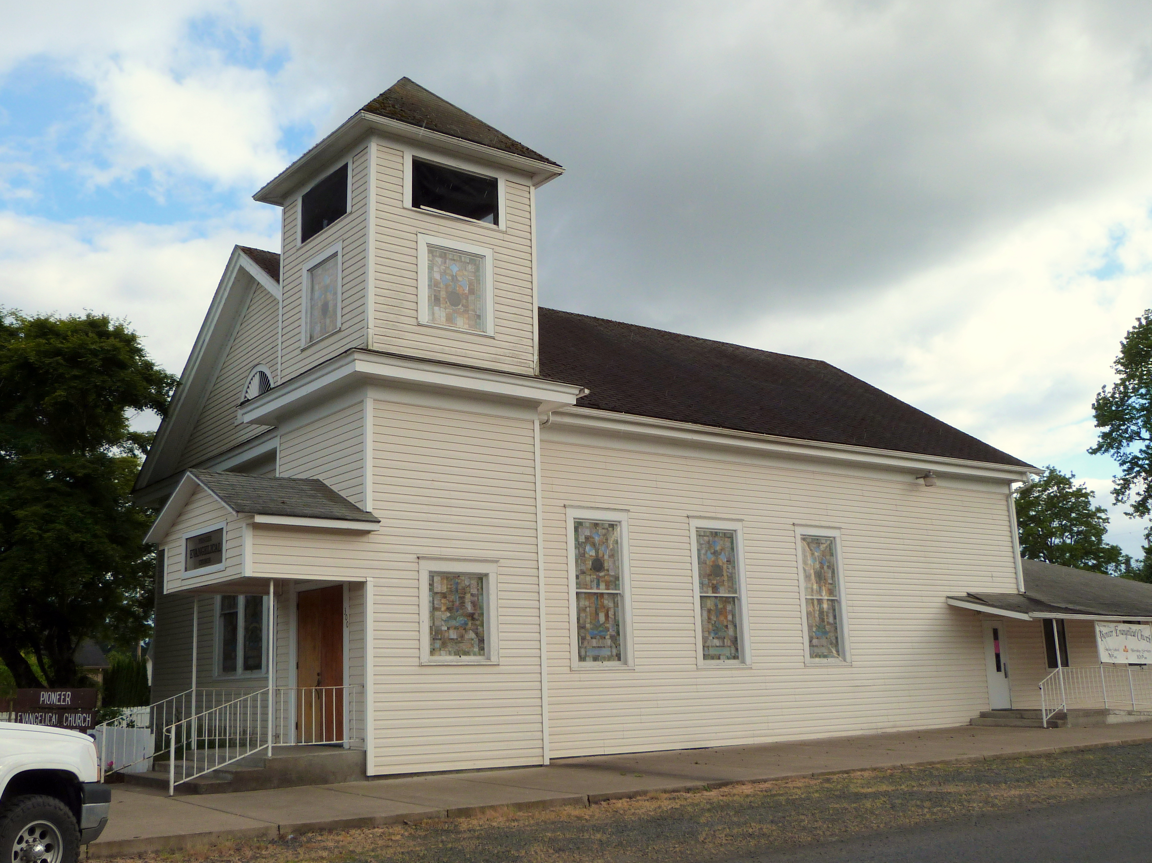 The Pioneer Evangelical Church building (built 1862), located at 302 4th Street in Dayton, Oregon, United States, is listed on the US National Register of Historic Places under its historic name of Dayton Methodist Episcopal Church. The building has undergone major alterations since it was listed on the National Register in 1987.